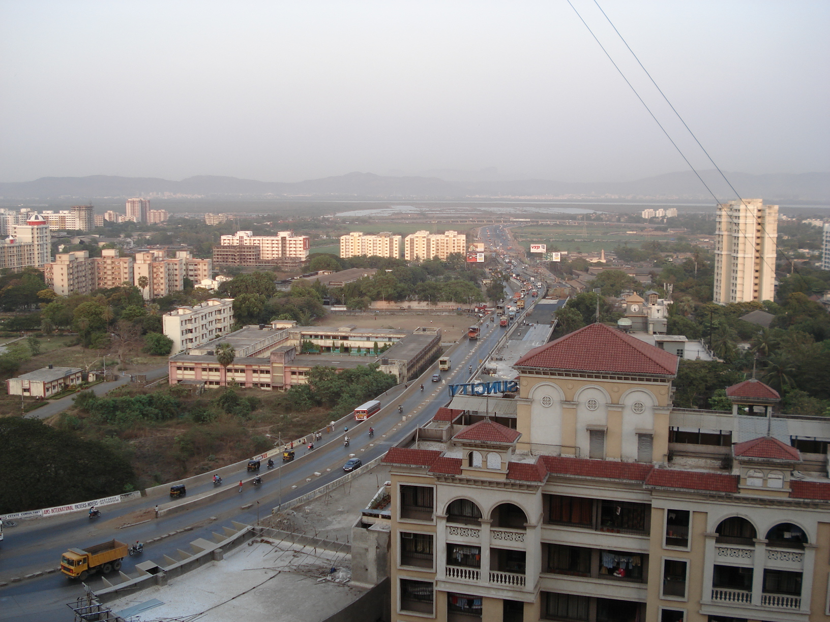 Jogeshwari–Vikhroli Link Road as seen from the Suncity housing complex in Gandhi Nagar.